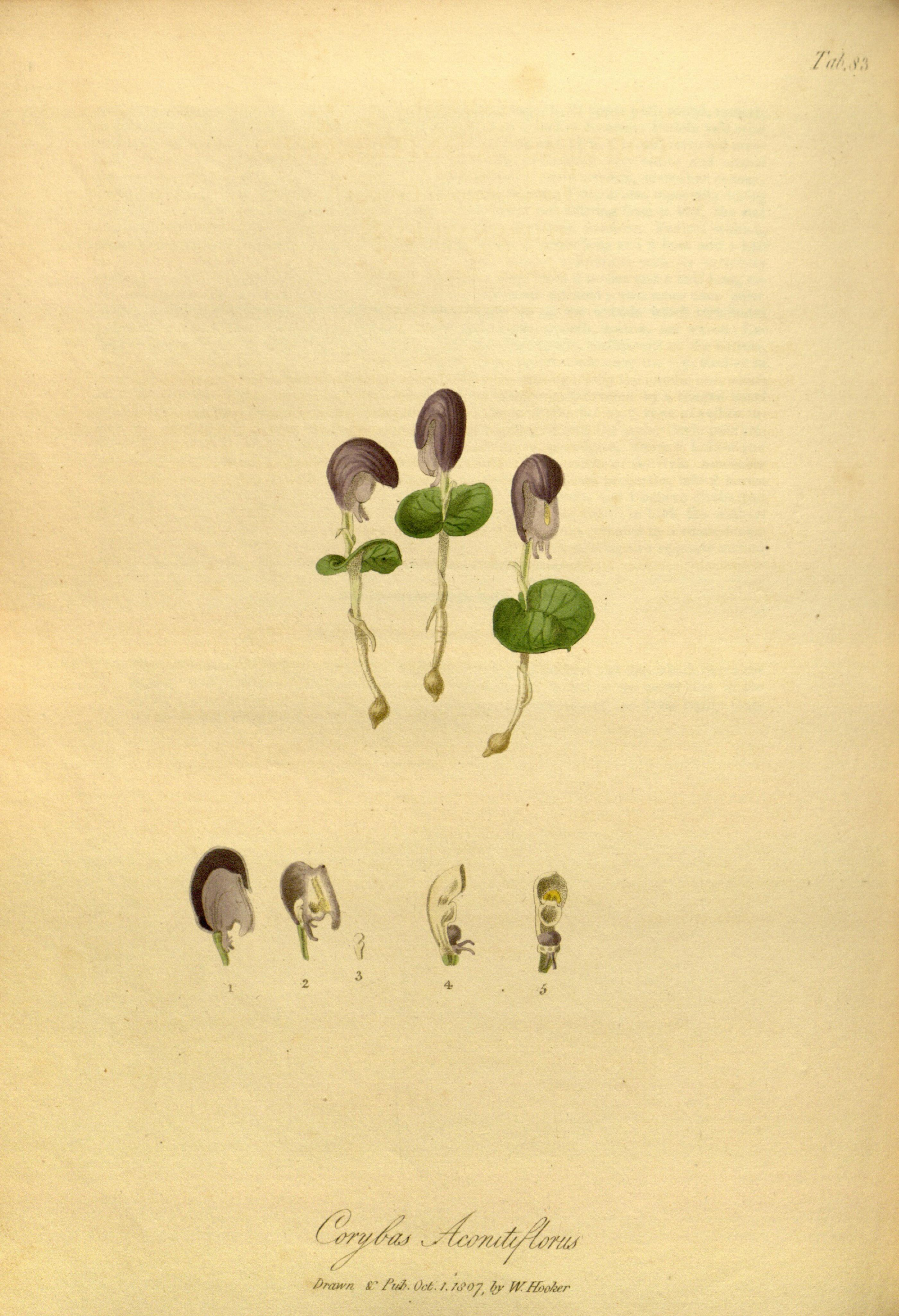 Part of the plate depicting Corybas aconitiflorus from t. 98, The Paradisus Londinensis. Original scan processed to improve colour and remove background of yellowed paper; cropped. The numbered parts are identified in the original as: 1. A flower, half of the upper petal being cut away to show the labellum. 2. Half of the Labellum showing one of the nectaries near the base. 3. Style, natural size. 4,5. A side and front view of the style highly magnified, showing the lowest petals, bolster, stigma and anther.